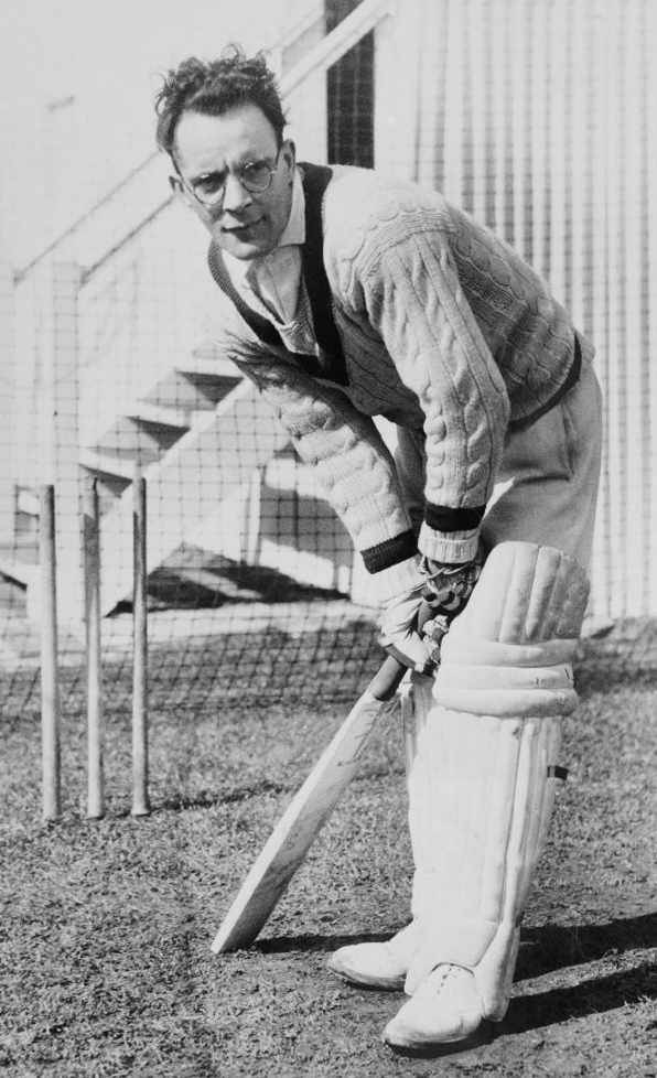 Derbyshire and England cricketer Tom Mitchell, circa May 1936.